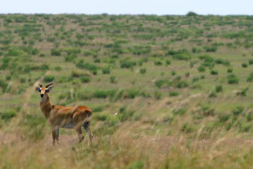 Antelope Ugandan kob — in Virunga National Park, the Democratic Republic of the Congo.